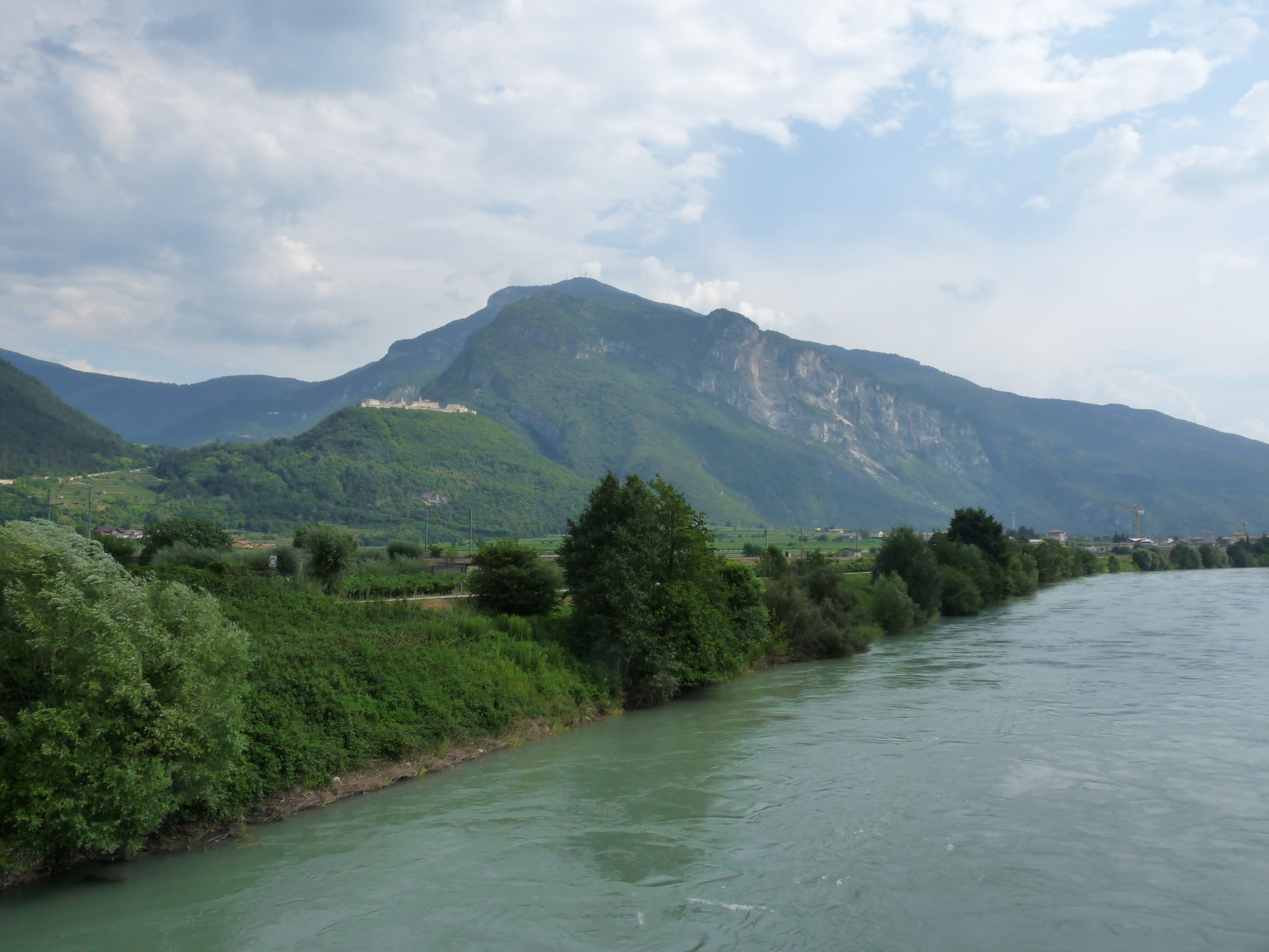 Besenello (province of Trento, Italy): panorama of Castel Beseno with the river Adige